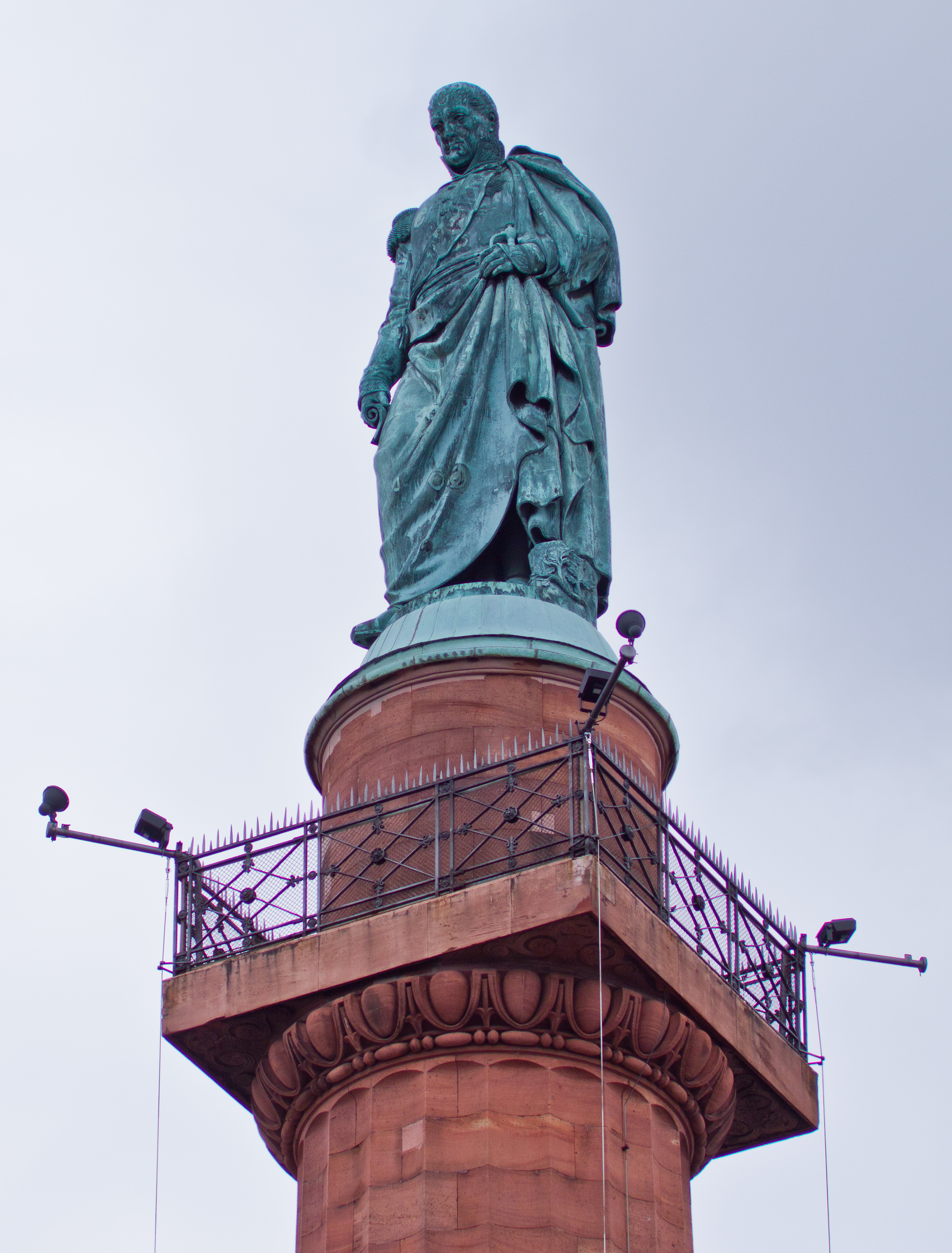 A detailed view onto the Ludwigsmonument in Darmstadt, Germany